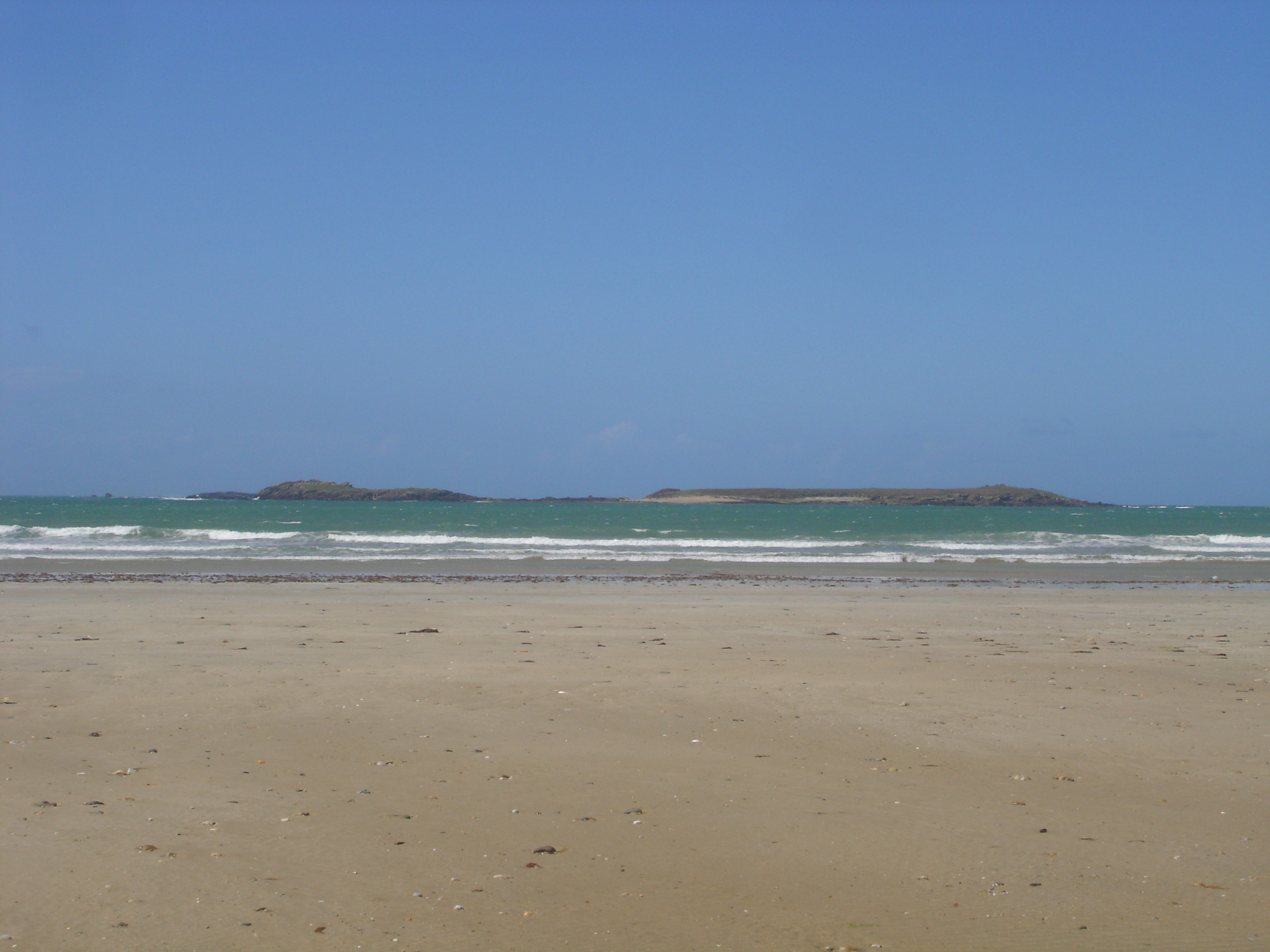 Islands of Téviec & Guernic, from the beach of Penthièvre, Morbihan, France